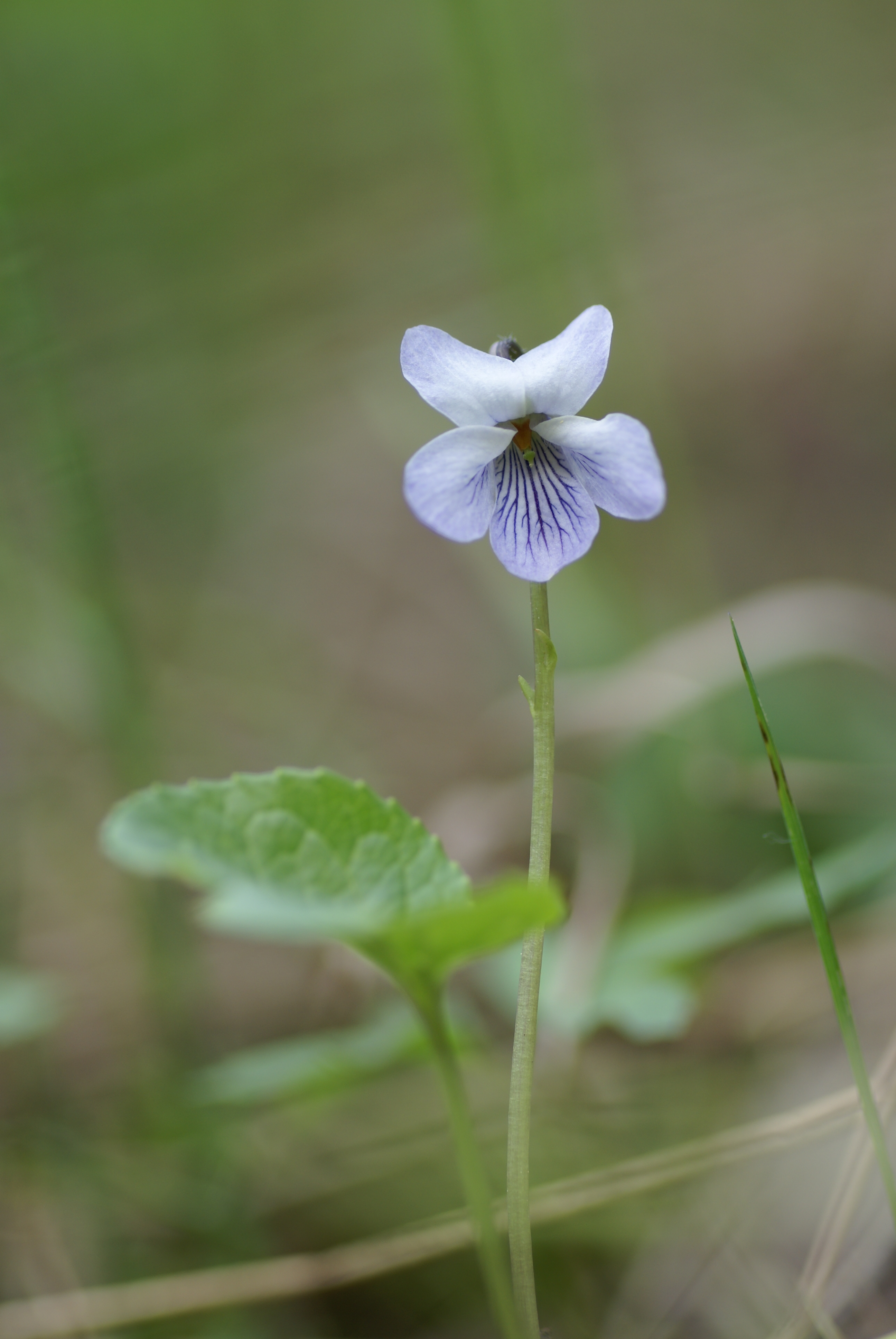 Plant species Viola epipsila in Swedish province Uppland